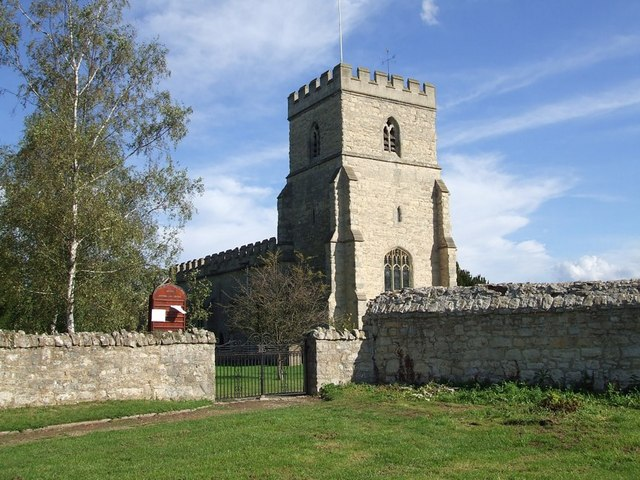 SS Peter & Paul, Dinton. Taken from the lane from Dinton village to Upton as it passes the church. 247494 is immediately to the southwest of this image behind the wall to the right. More information about the church here